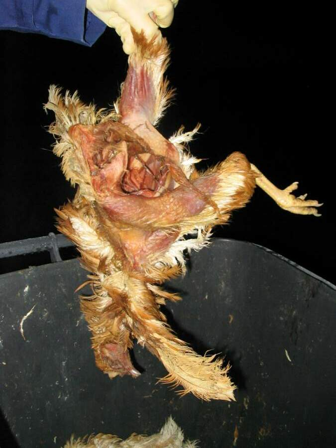 Chicken corpse from a deep-litter system.